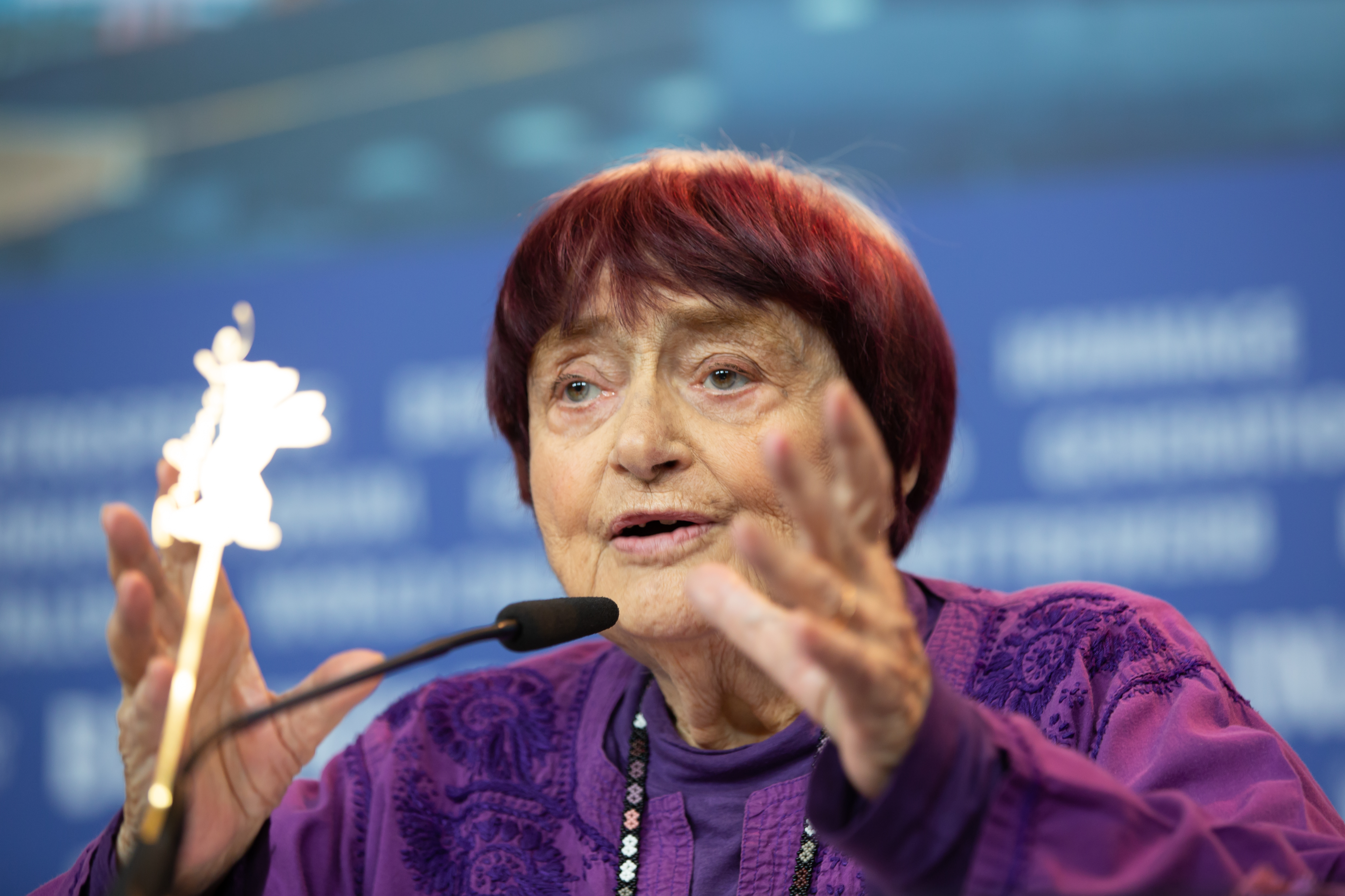 Film director Agnes Varda at the Berlinale 2019